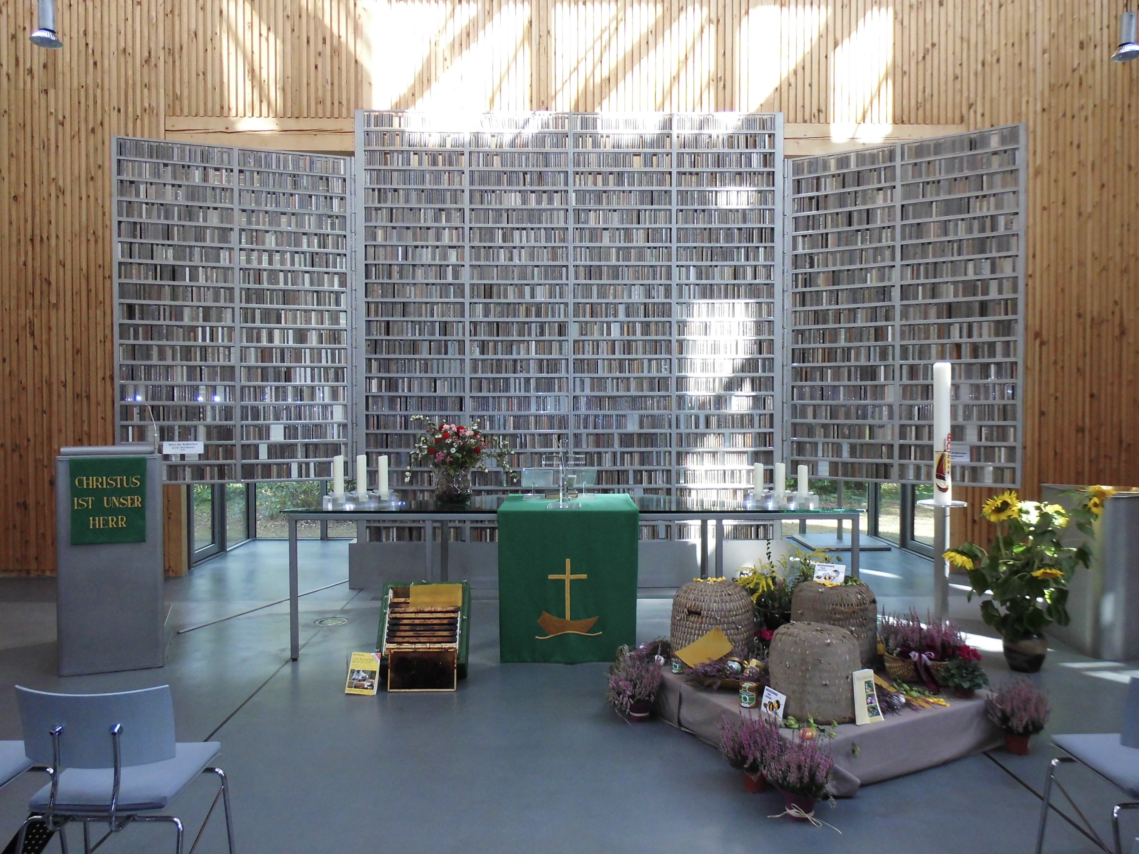 "Eine-Erde-Altar", Altar of Eine-Welt-Kirche, Schneverdingen